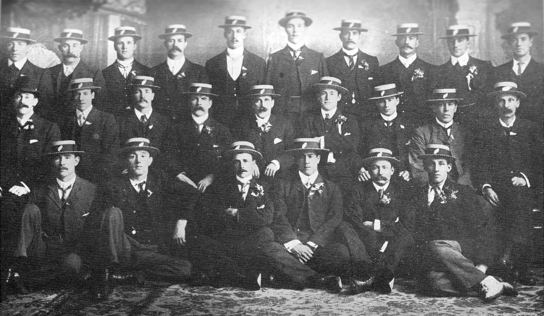 The New Zealand national rugby team that toured to Australia.